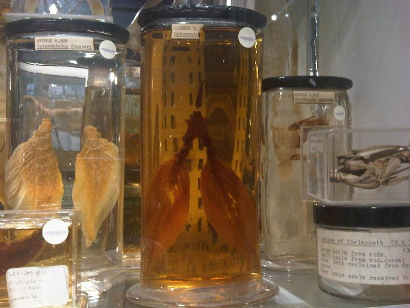 Pelvic belt with right and left leg fins of the Australian lungfish (Neoceratodus forsteri) in Grant Museum of Zoology, London, England.